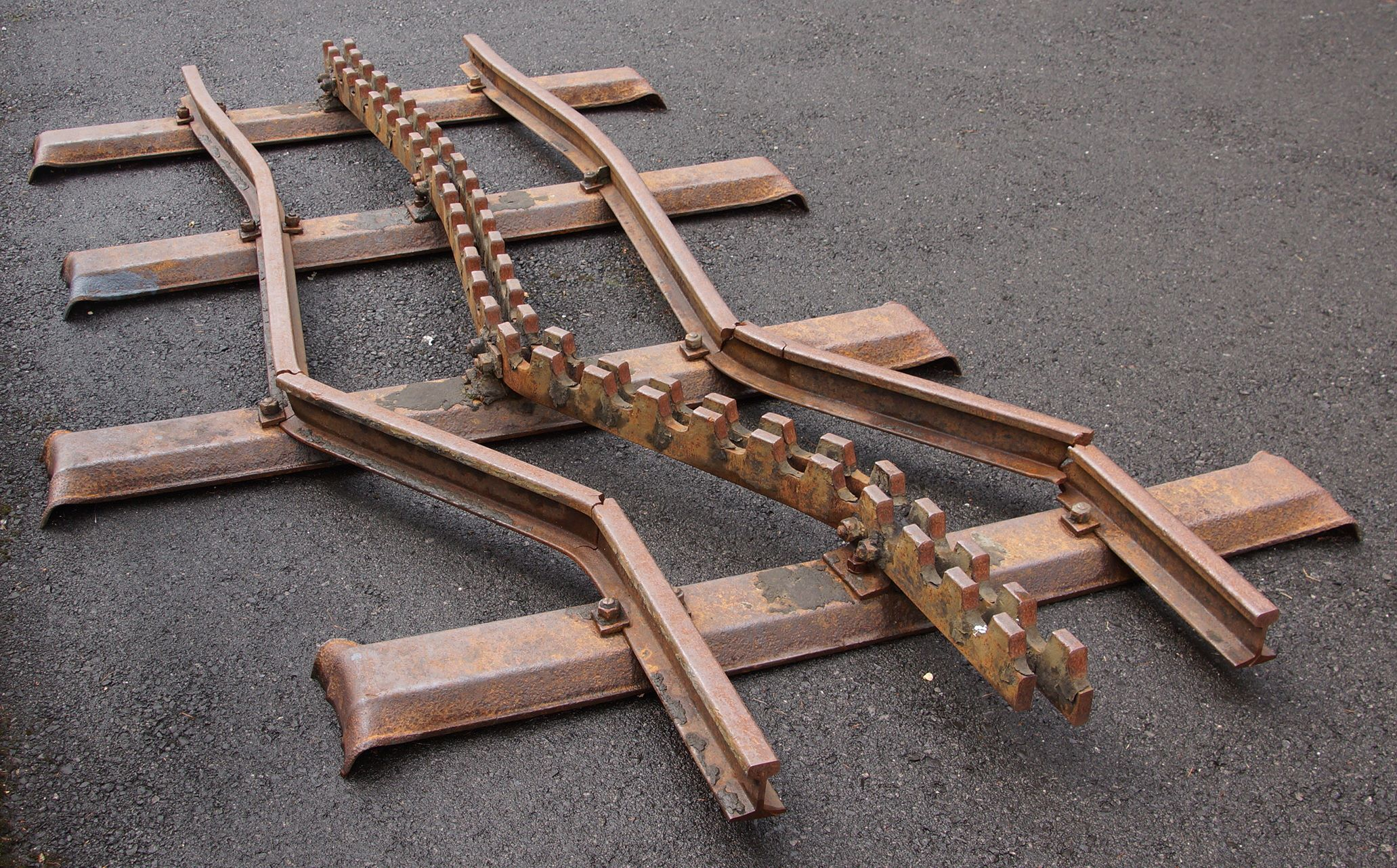 Bent rails on display at the Brienz station of the Brienz Rothorn railway. In the winter of 2011/2012, more snow accumulated on the Rothorn than in any year since 1967. At 2000m above sea level the pressure generated by this enormous field of snow was enough to push 60m of the trackwork out of alignment by some 1.5m. This recovered section dating from 1891 shows just how much force was involved. With only 14 days to go until opening for the 2012 season the entire 60m section was replaced and ready for service on time.